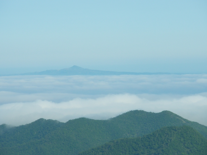 Island Kunashirito(Kunashir Island), taken from Shiretoko Peninsula